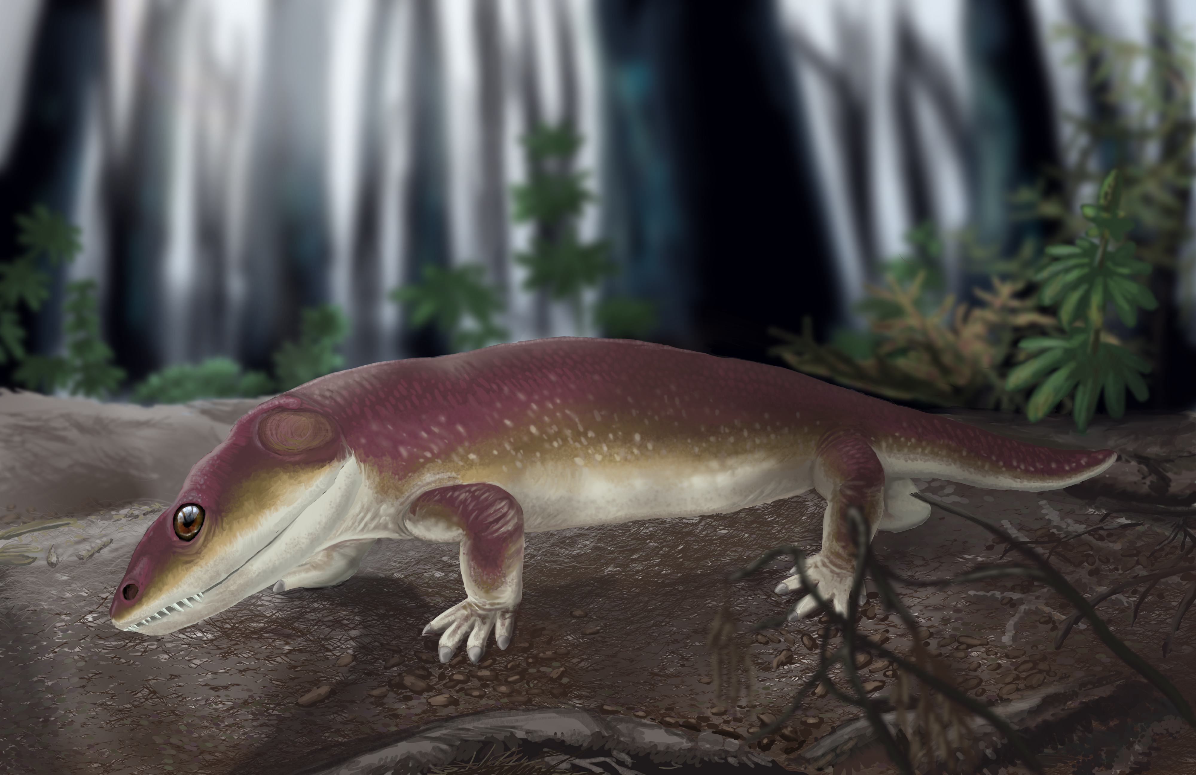 Life restoration of Rotaryus gothae. Based on Figures 2 and 5 of "Rotaryus gothae, a new trematopid (Temnospondyli: Dissorophoidea) from the Lower Permian of central Germany" by David S Berman, Amy C. Henrici, Thomas Martens, Stuart S. Sumida, and Jason S. Anderson (Annals of Carnegie Museum 80(1): 49-65).